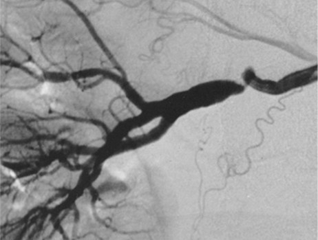 Unifocal stenoses are typically seen in intimal FMD.